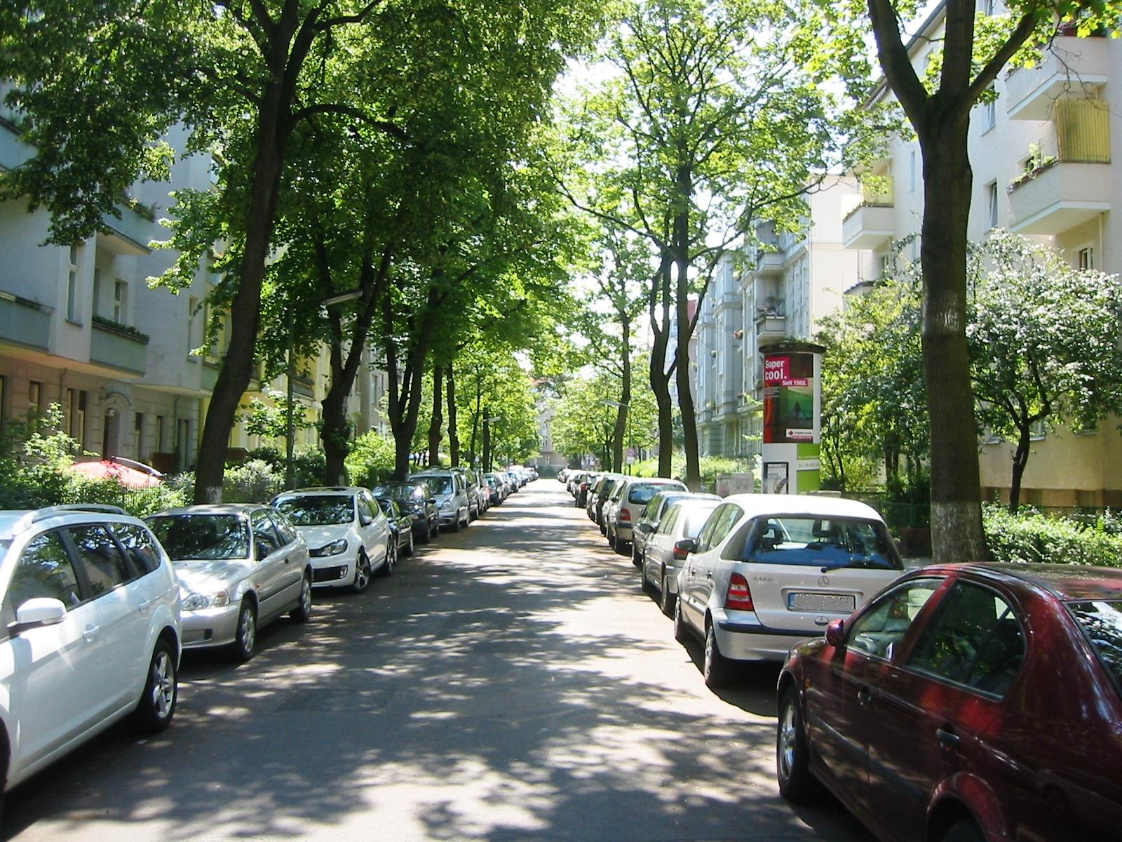 Berlin-Friedenau Blankenbergstraße